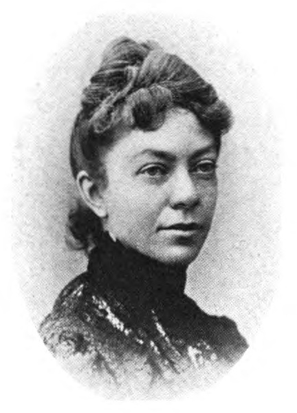 Artist Clara Welles Lathrop (1853–1907)